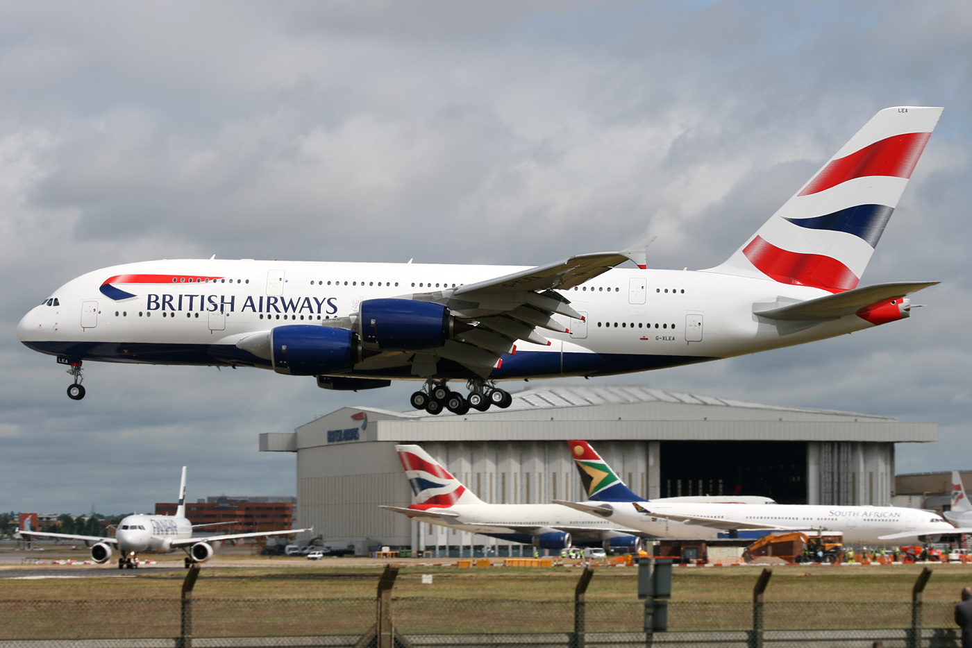 British Airways A380-841 G-XLEA at London Heathrow. Delivery flight.